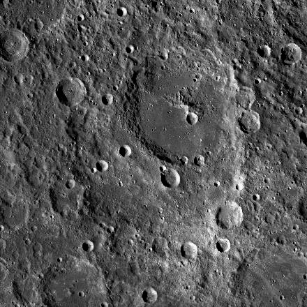 LRO-WAC. Harkhebi is the heavily eroded crater overlaid at upper right by Fabry; Giordano Bruno at lower right